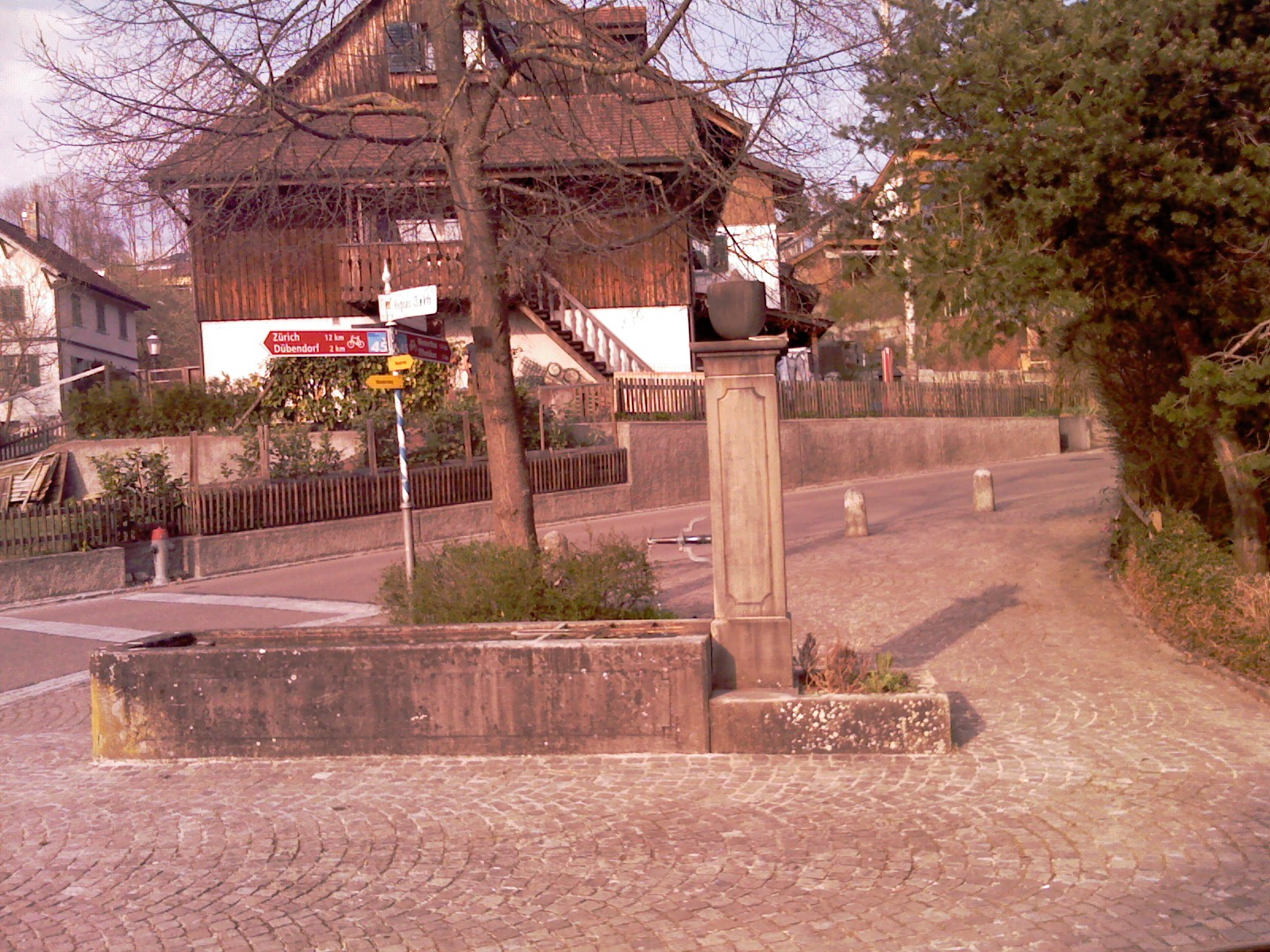 Village Fountain al Wangen, municipality of Wangen-Brüttisellen, canton of Zürich, SwitzerlandEsperanto: Vilaĝa puto de Wangen, komunumo Wangen-Brüttisellen, Kantono Zuriko, Svislando